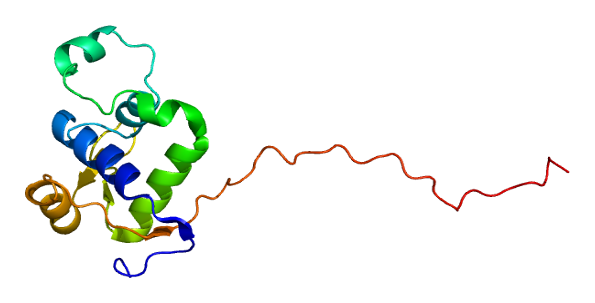 Structure of the DNA binding domain of WRN protein. Based on PyMOL rendering of PDB 2axl.